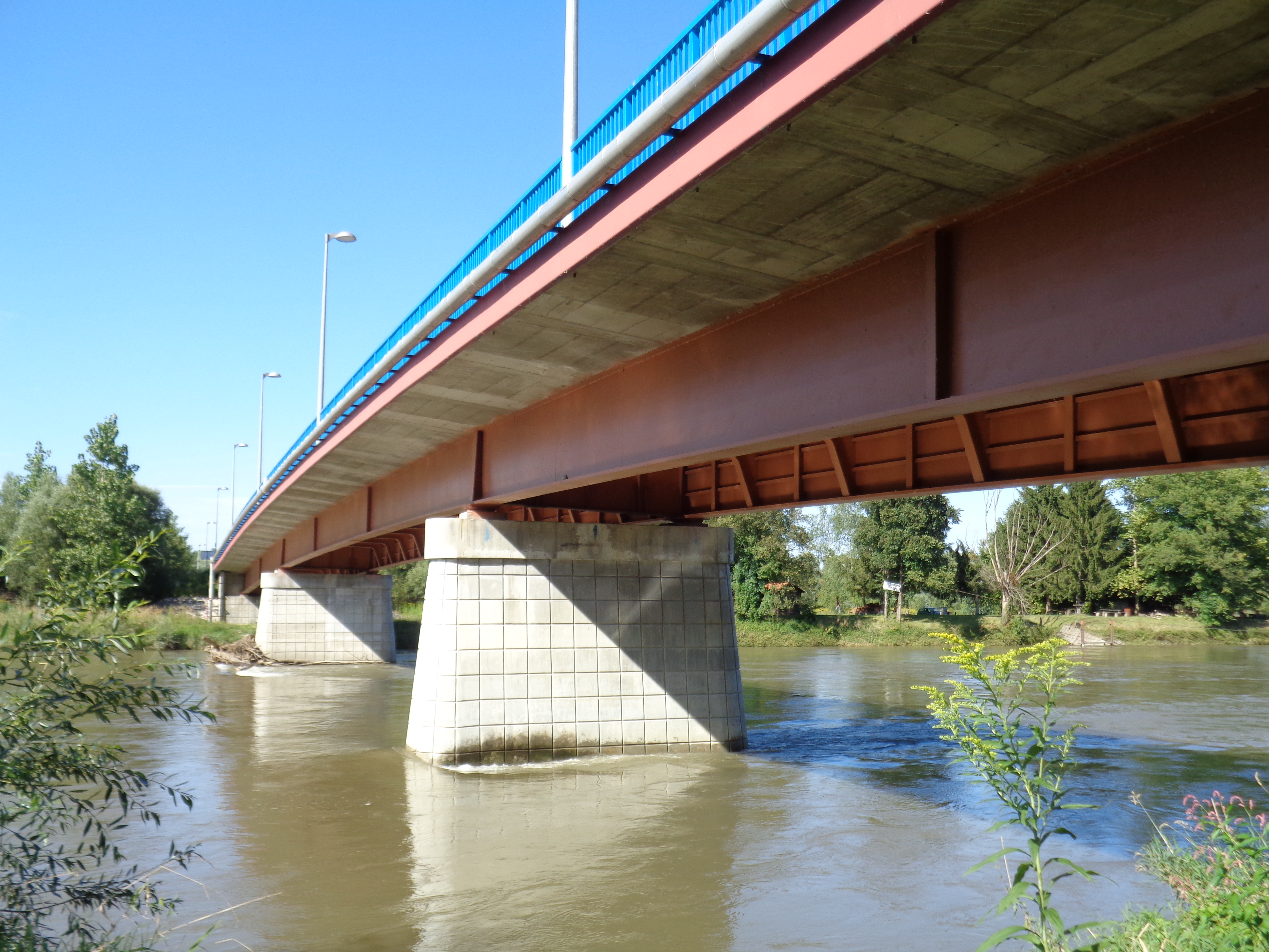 Road bridge over the Mura river in Sveti Martin na Muri, Međimurje County, Croatia - southwest view